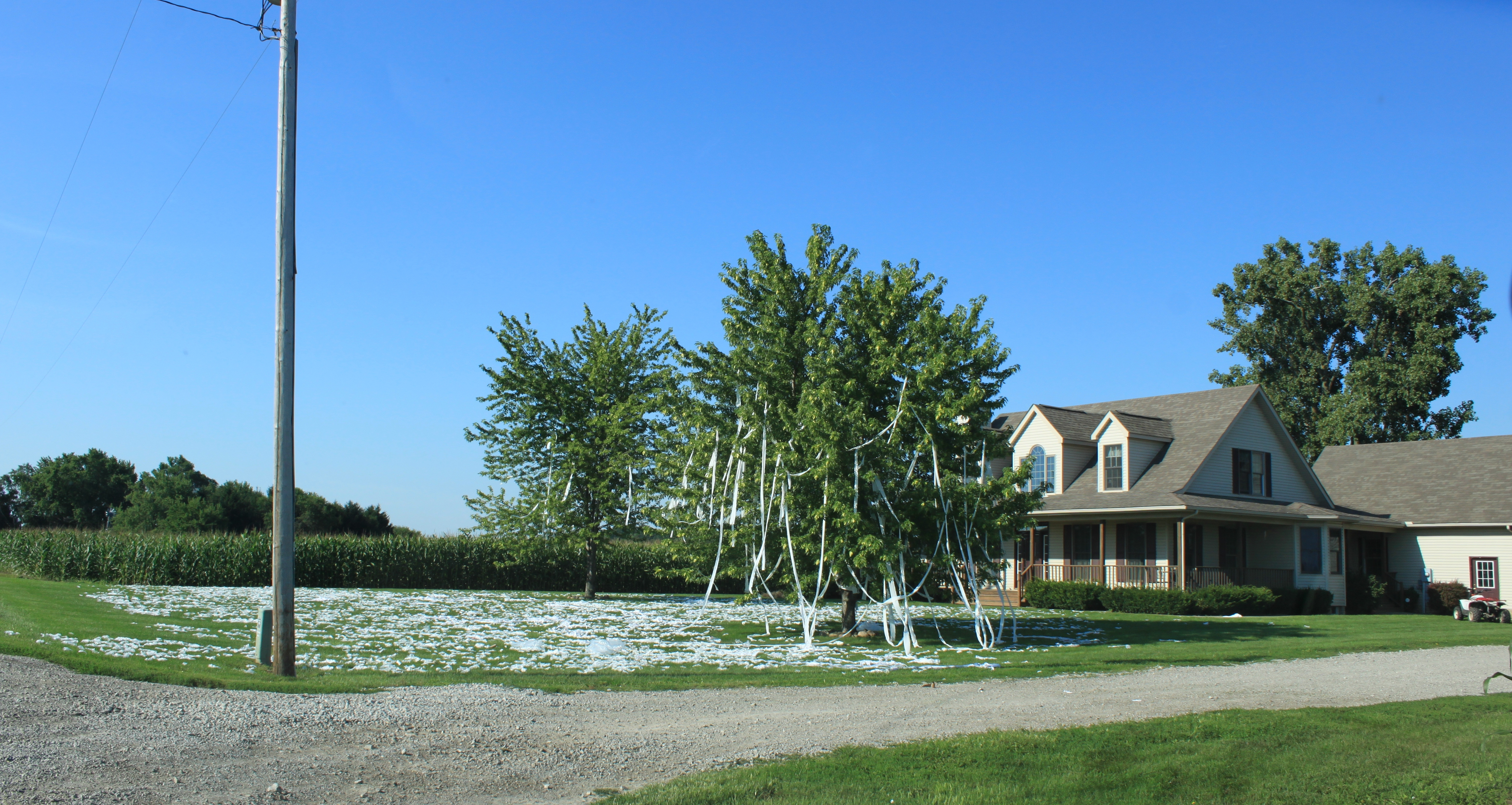 Toilet papered house, 1888 Bucholtz Highway, Deerfield, Michigan.